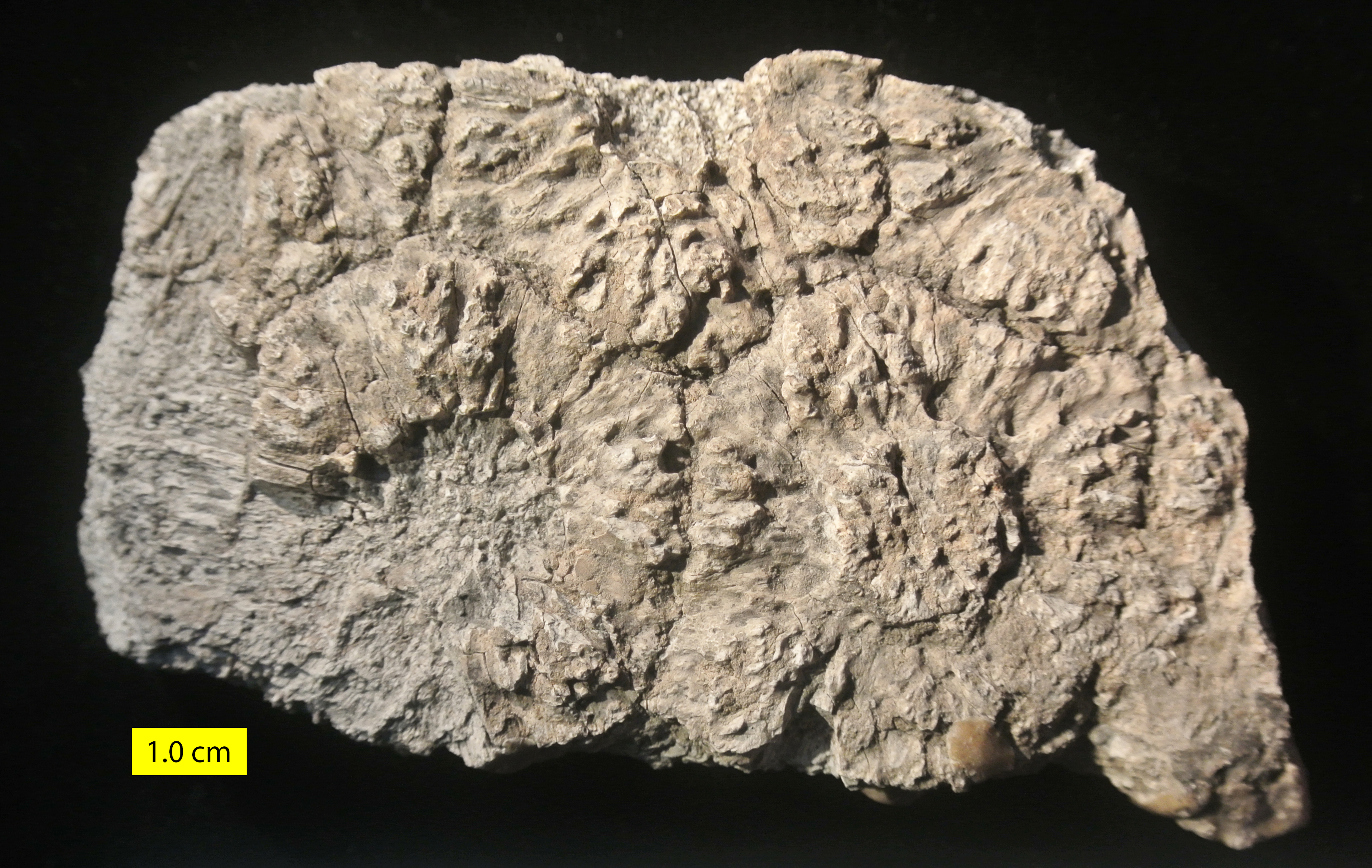 Glyptodon carapace fragment (Pleistocene).